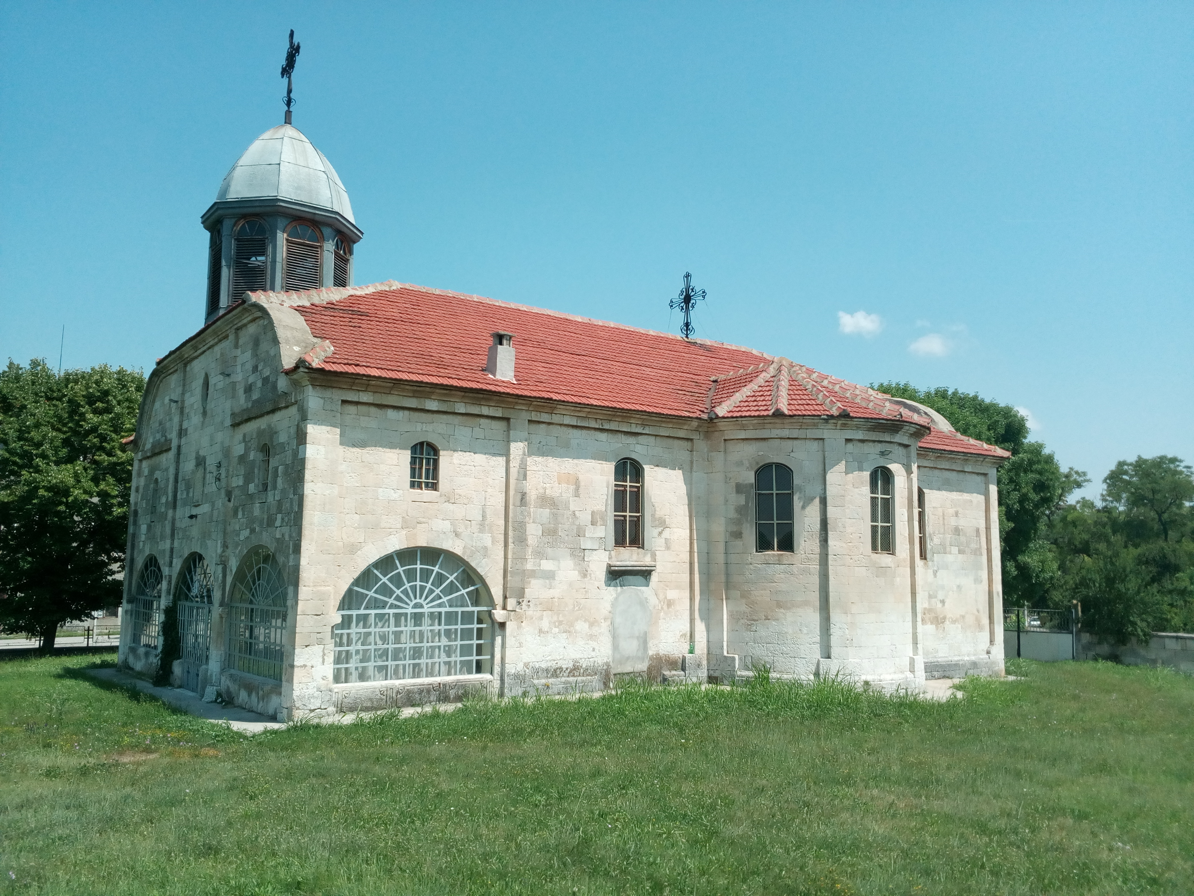 Православна църква „Св. Димитър Басарбовски“